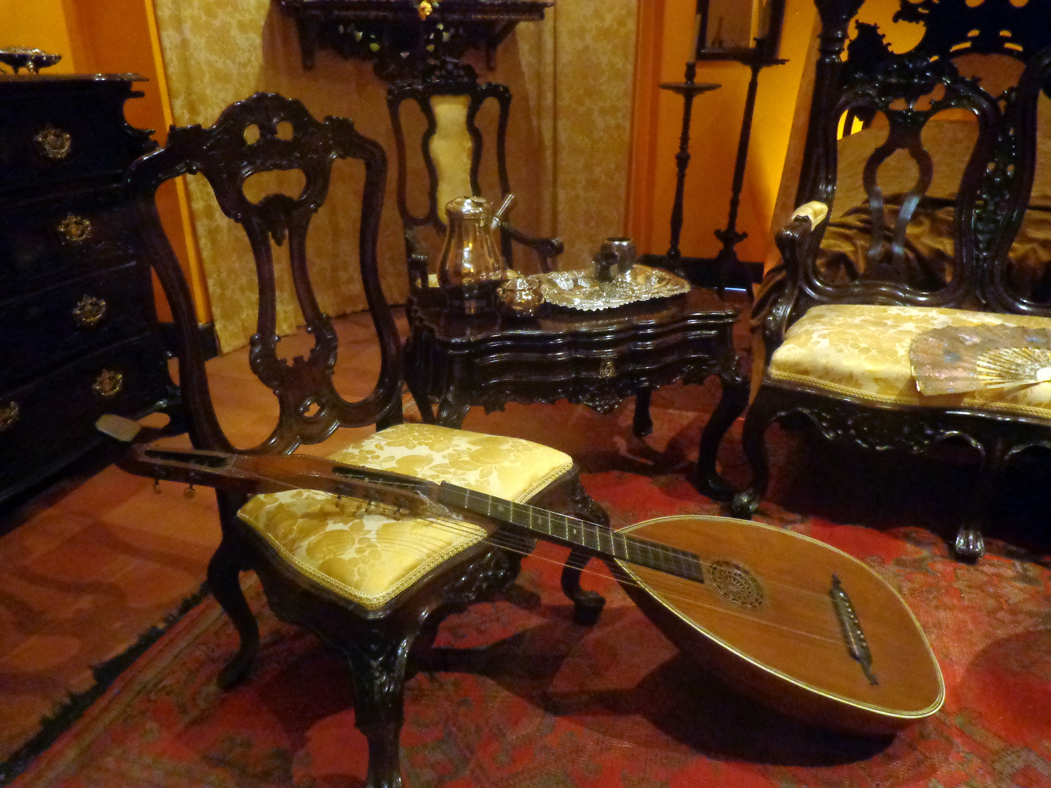 Archlute of the 19th century, in the Noel Palace, home of the Hispano-American Museum "Isaac Fernández Blanco". Suipacha 1422, Buenos Aires (Argentina).